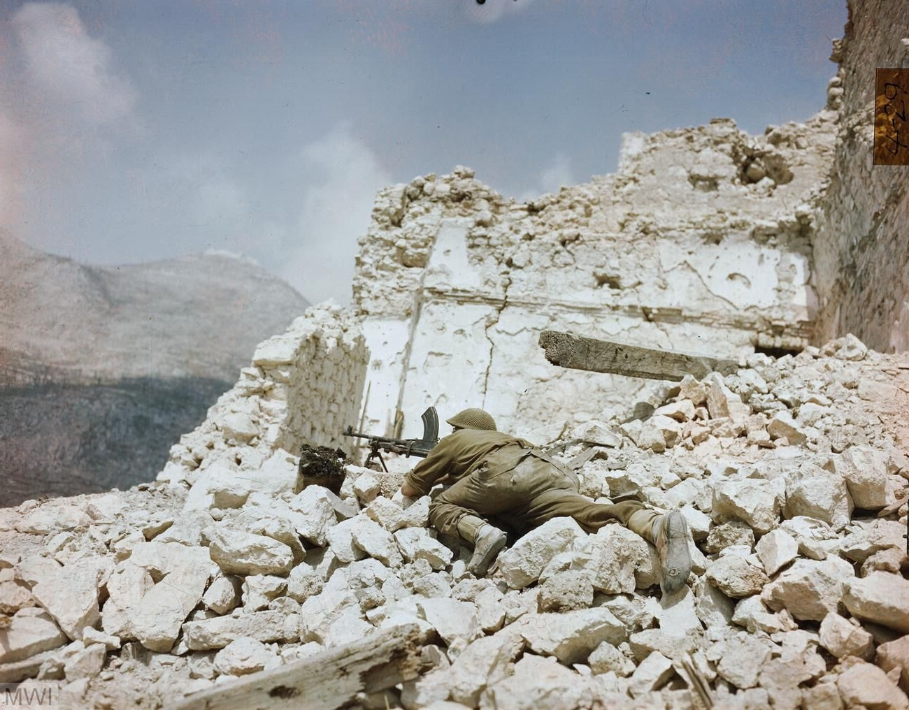 The Campaign in Italy, May 1944 A British soldier with a Bren gun in the ruins of Monte Cassino.